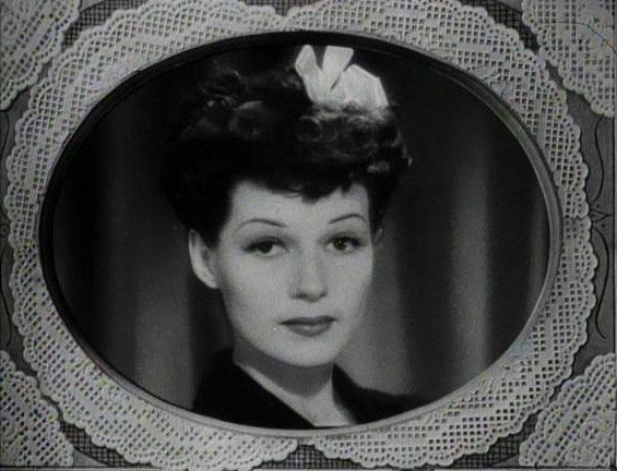 Frame from the public domain trailer for Warner Bros. 1941 film Strawberry Blonde showing Rita Hayworth in a cameo frame